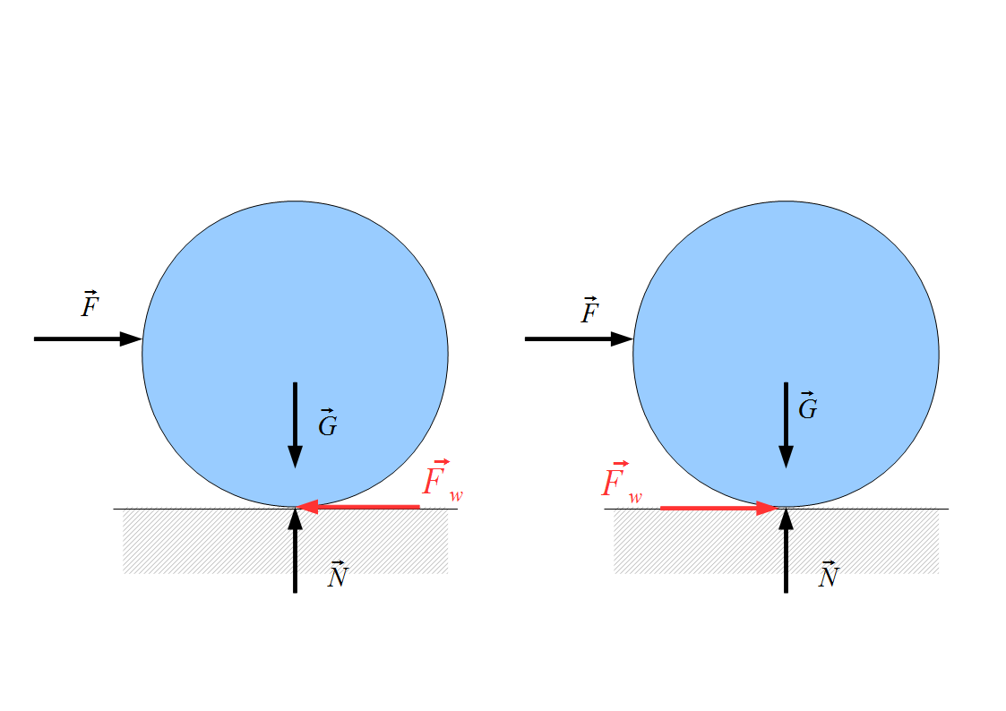 possible direction of the friction force